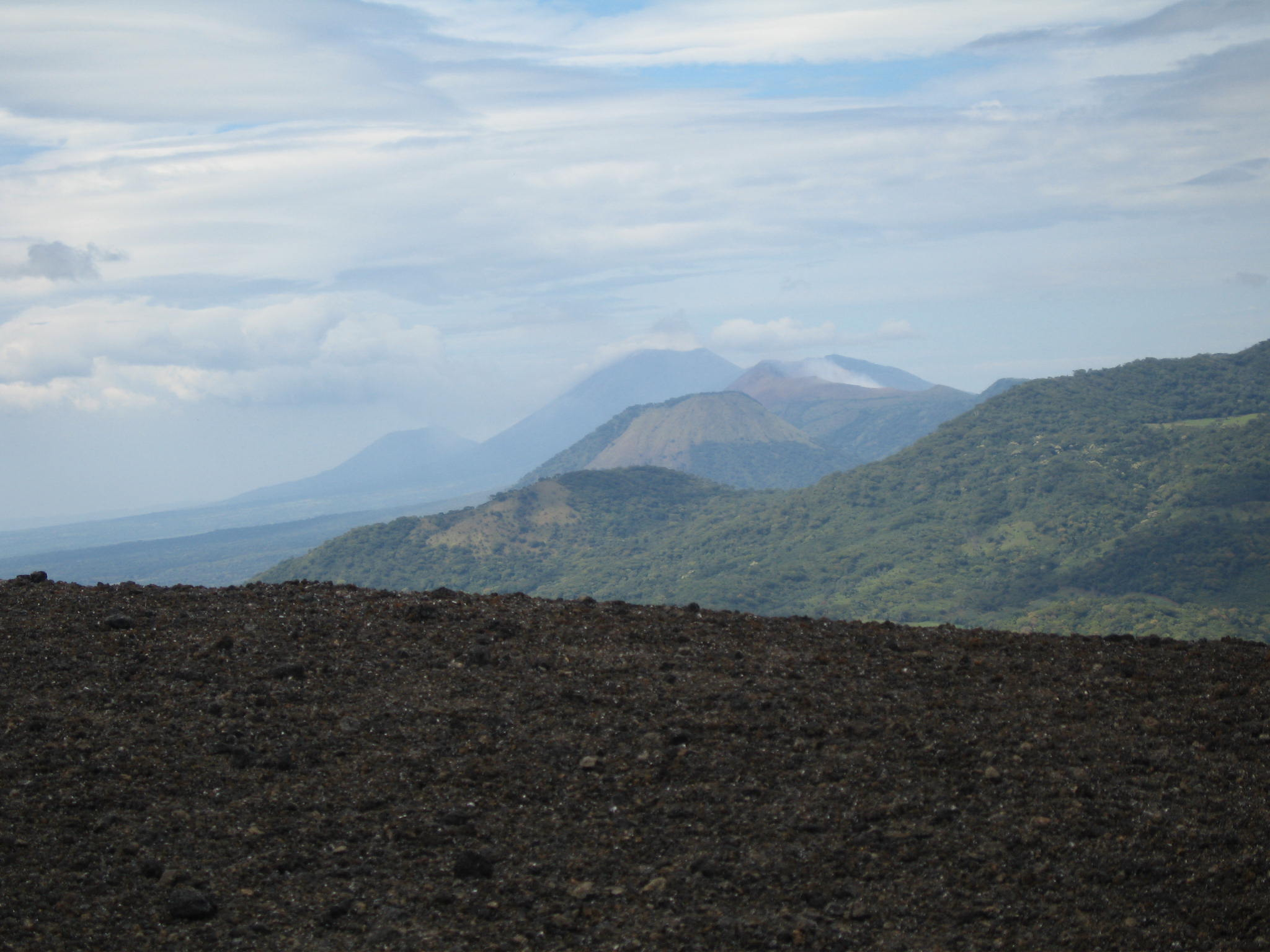 This is the Cordillera Los Maribios. This picture was taken atop Cerro Negro. In this picture you can see in order of distance: Rota, which is closest, Telica, and San Cristóbal.